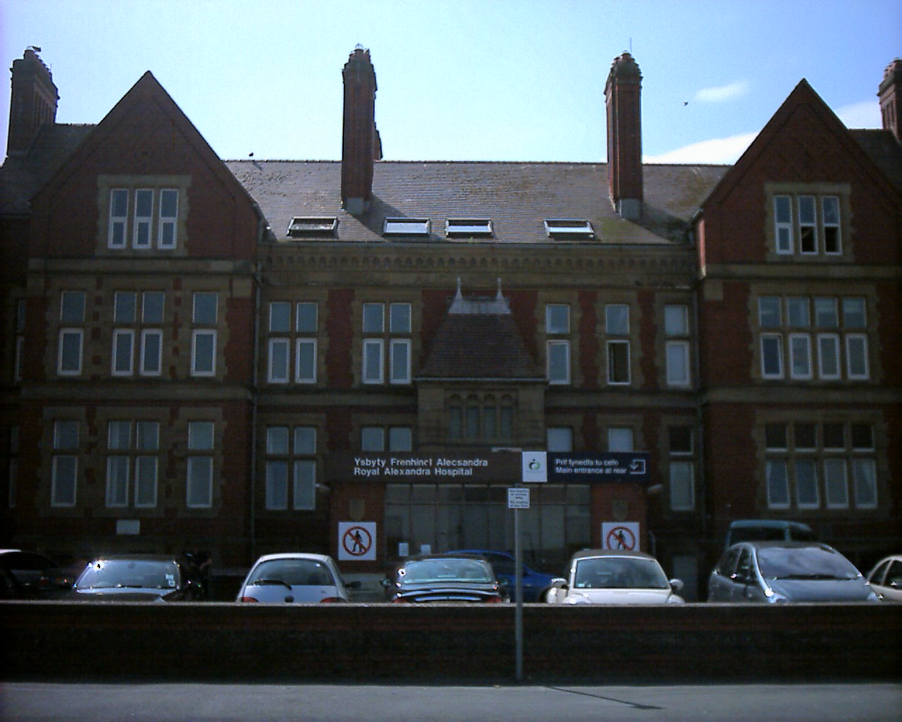 Royal Alexandra Hospital, Rhyl, North Wales.